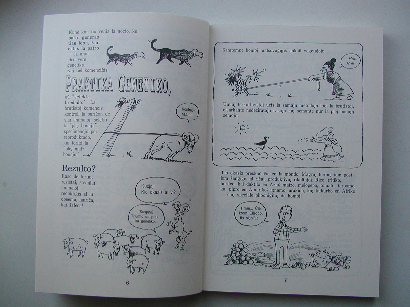 An extract of the strip “La bildstria gvido al genetiko”